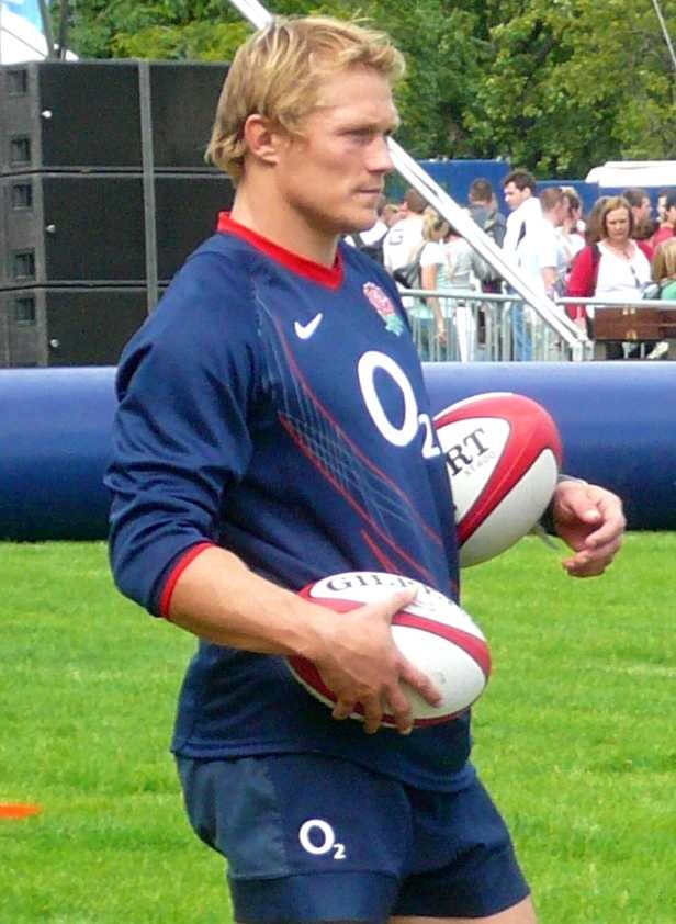 Photo of Josh Lewsey